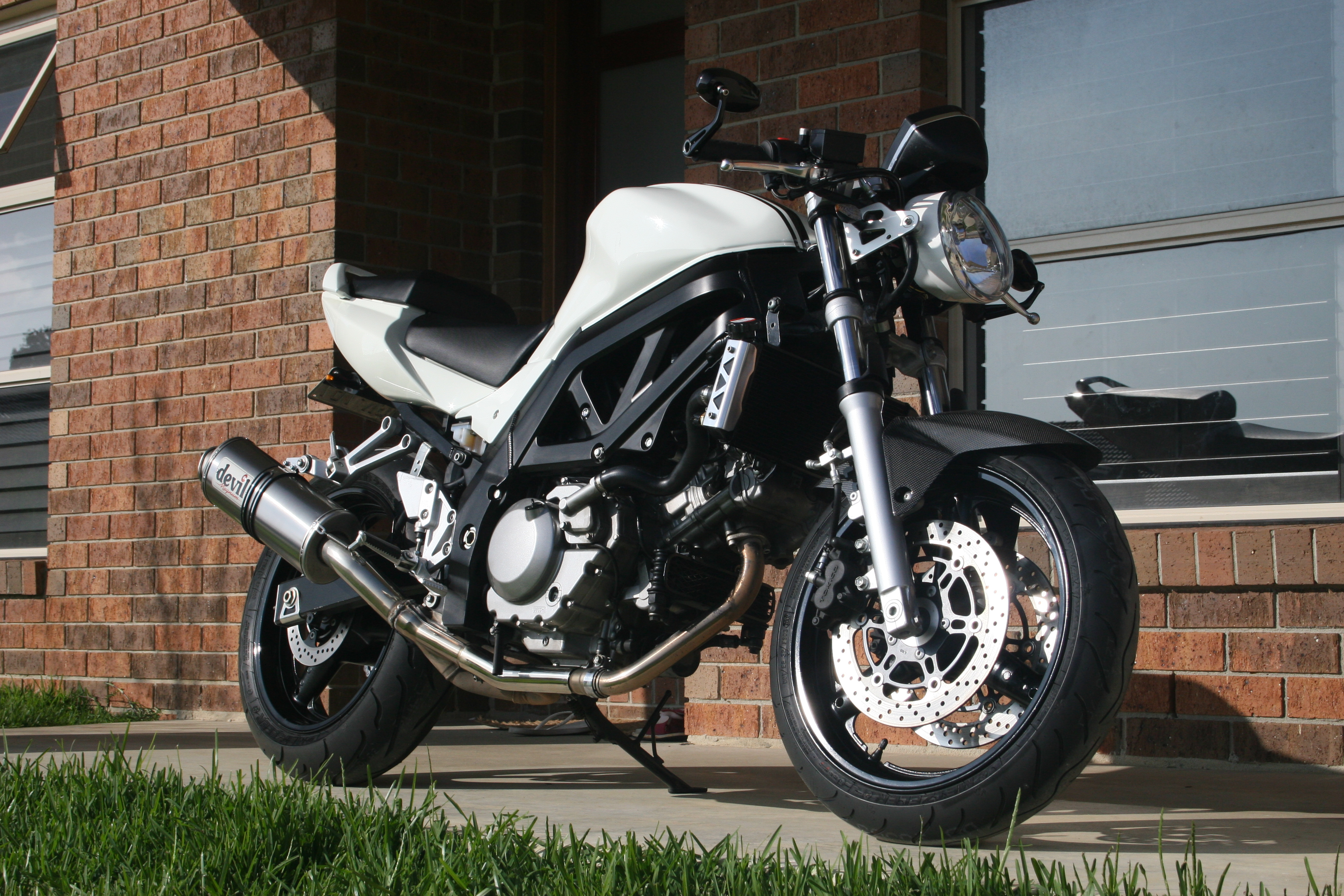 08 SV 650 Cafe Racer Style